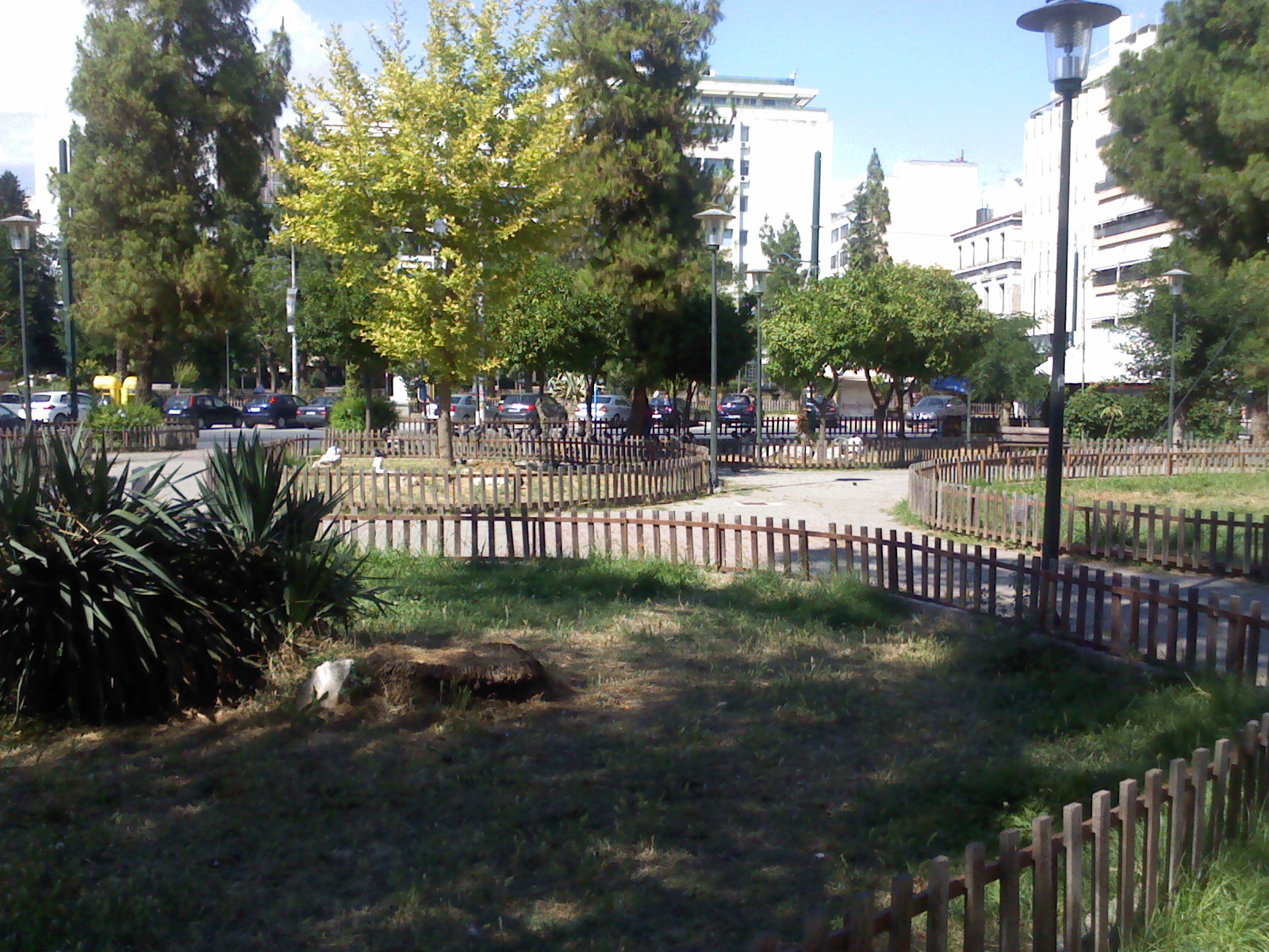 Plateia Terpsitheas ston Pirea